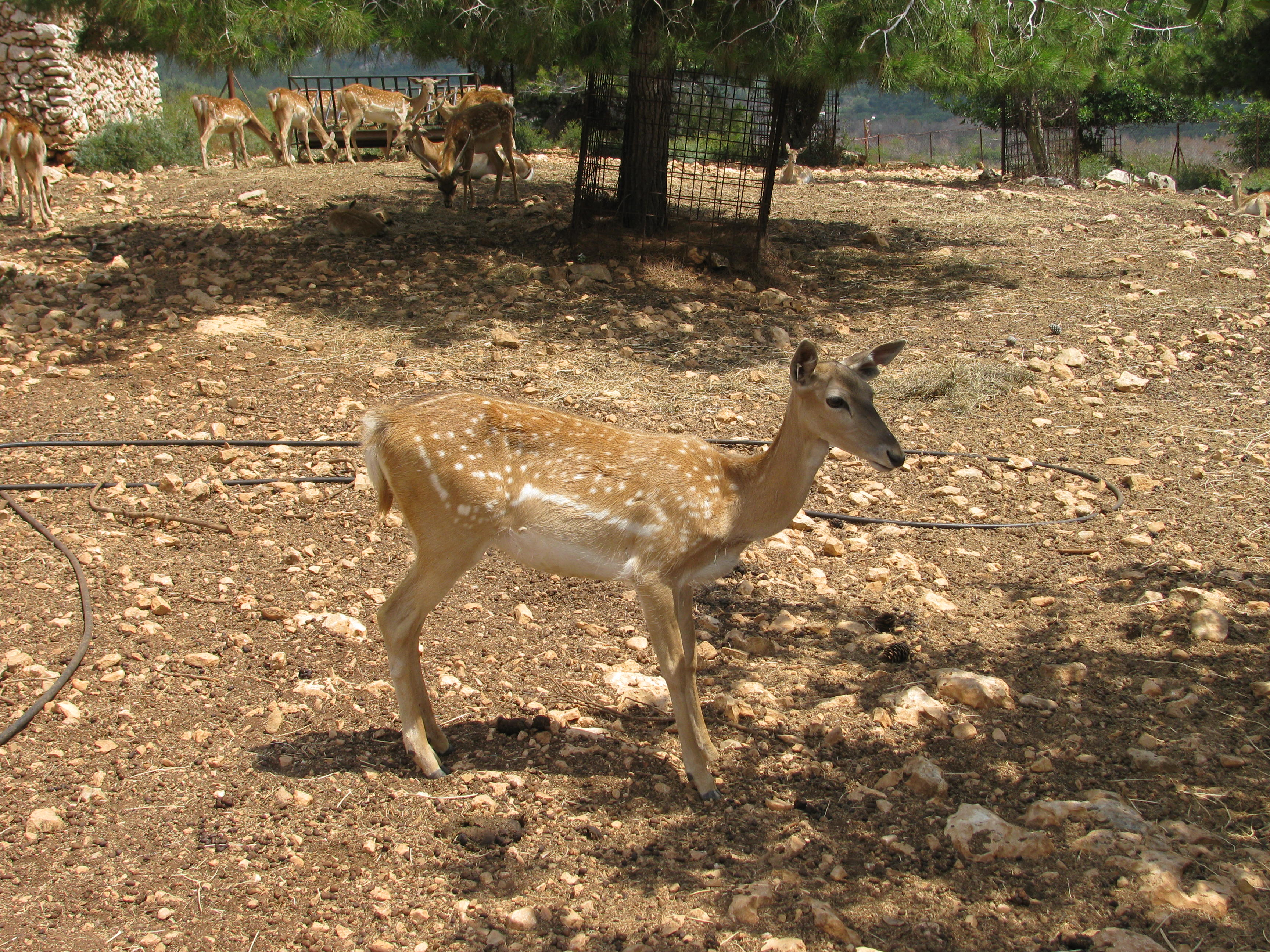 A Persian fallow deer (Dama Mesopotamica) in Hai-Bar Carmel reserve, near Haifa, Israel